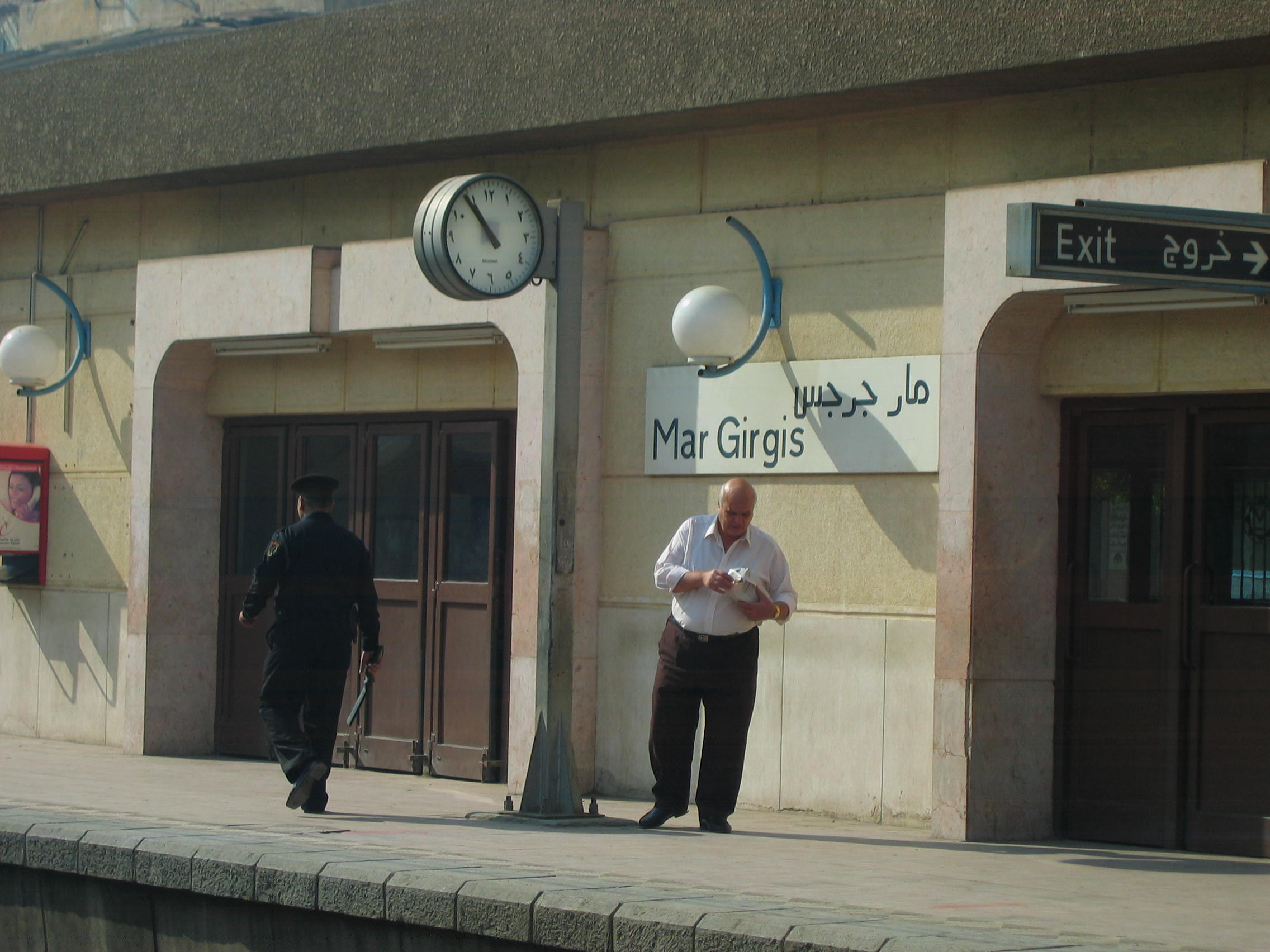 Cairo metro station Mar Girgis, line 1Cairo - Metro stop